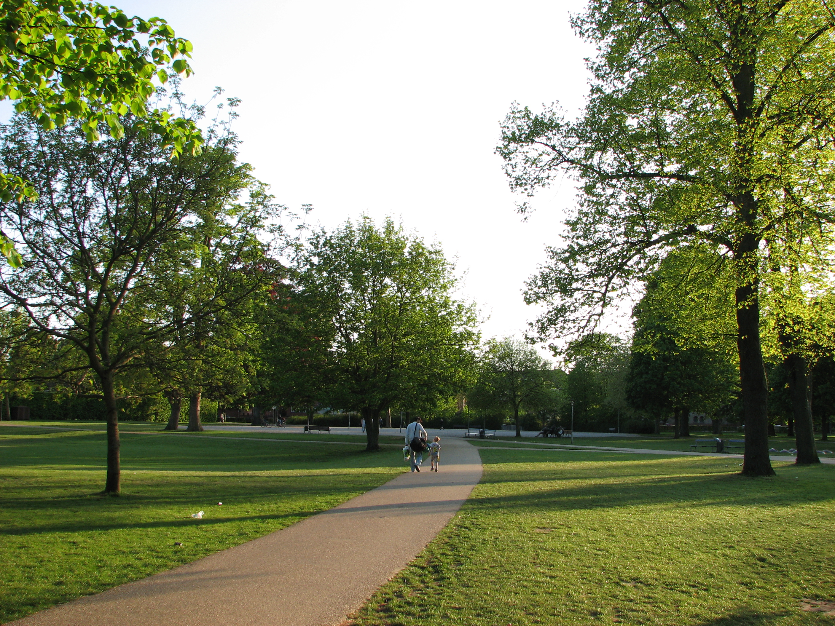 Kongens Have is a centrally located park in Odense, Denmark, situated across from the main railroad station (this picture is taken in the opposite direction).